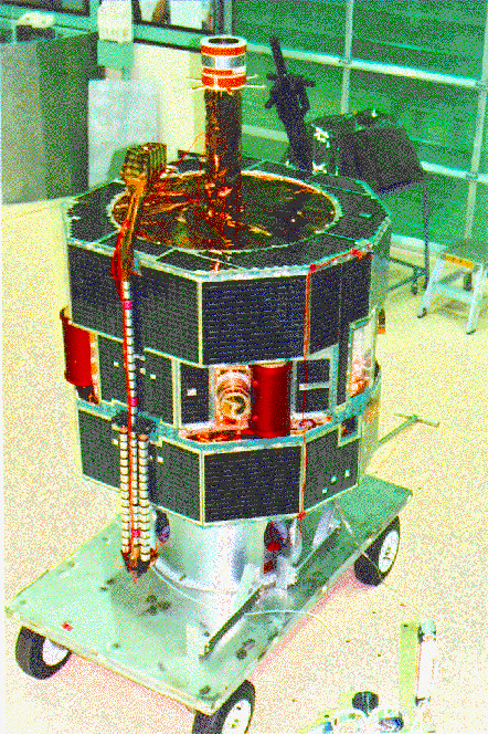 FAST (Fast Auroral Snapshot Explorer)